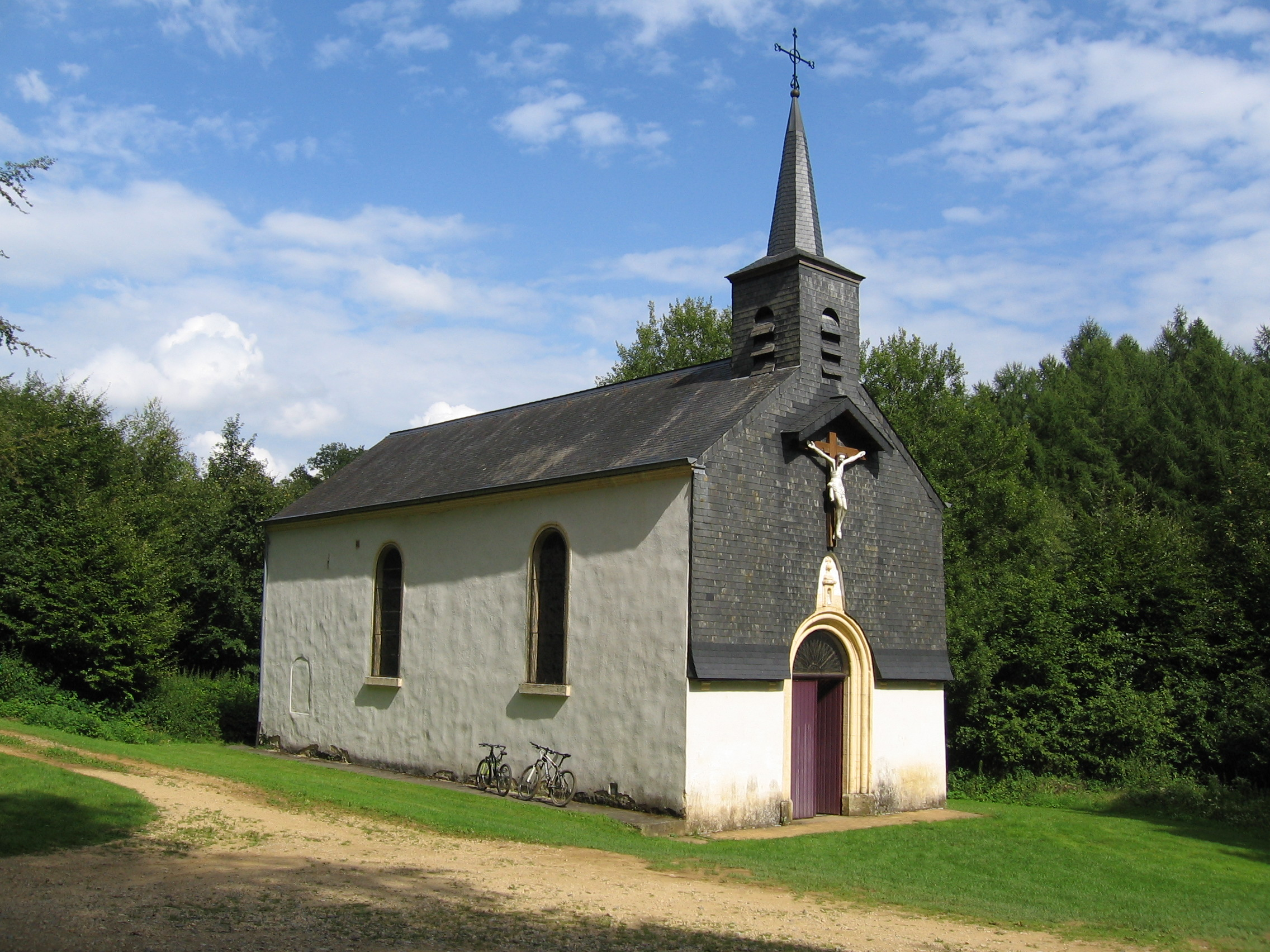 The ermitage's chapel of Wachet, in Saint-Léger (Belgium)